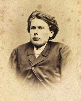 Hans Gabriel Friis (1839-1892), Danish landscape painter